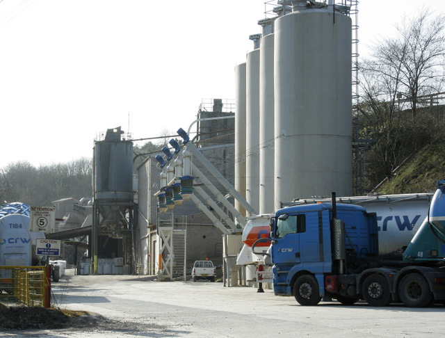 Quarry entrance and 'works' Gurney Slade